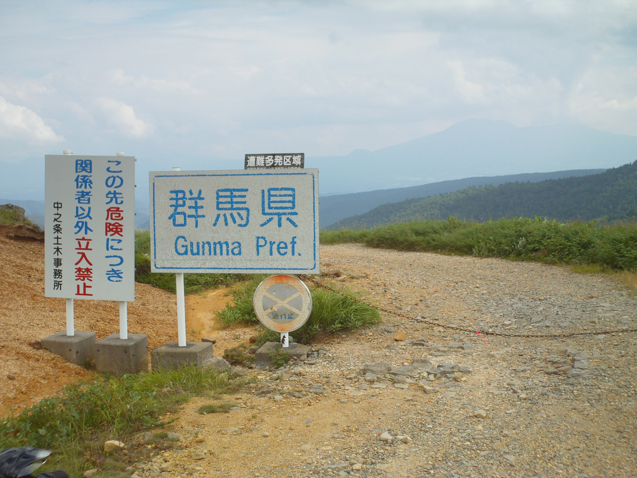 The Gunma Prefectural Road and Nagano Prefectural Road Route 112 at Kenashi Pass. The road is closed for traffic beyond this point